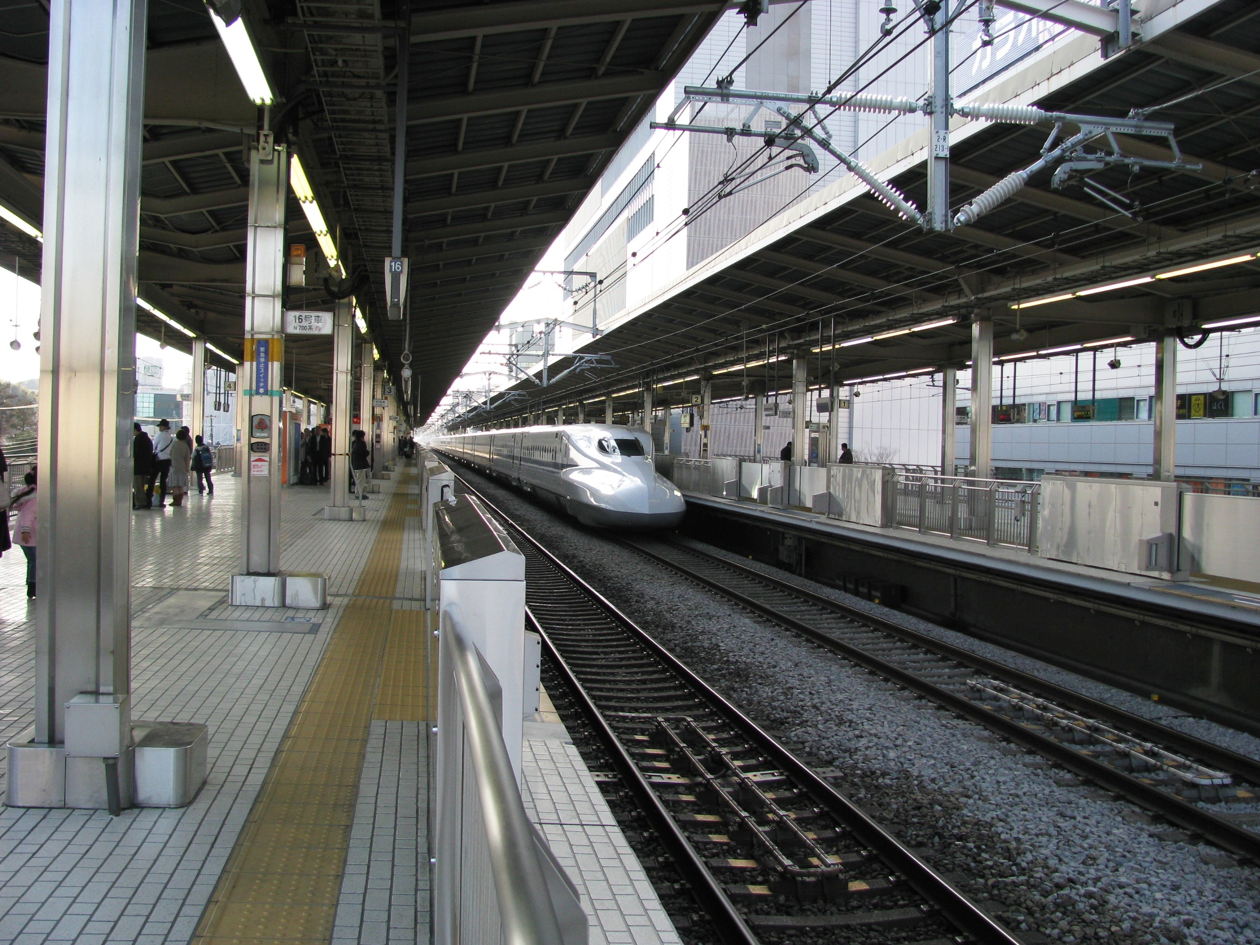 The Shin-Yokohama Station of the Tōkaidō Shinkansen.